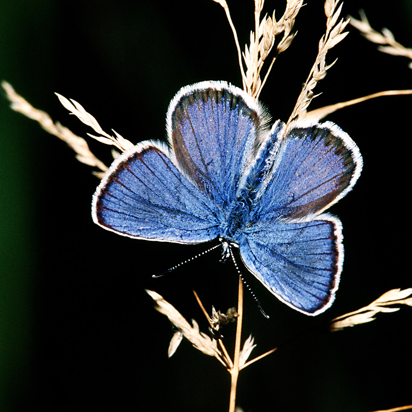 Male specimen of Silver-studded Blue (Plebeius argus)